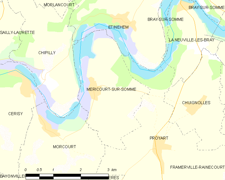 Map of French municipality Méricourt-sur-Somme